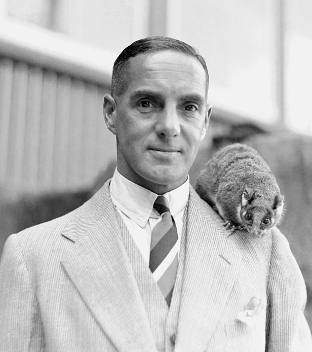 100 Years of Australian Cricket. English opener Herbert Sutcliffe with a local friend, Adelaide, 14 March 1933. SMH SPORT Picture by STAFF